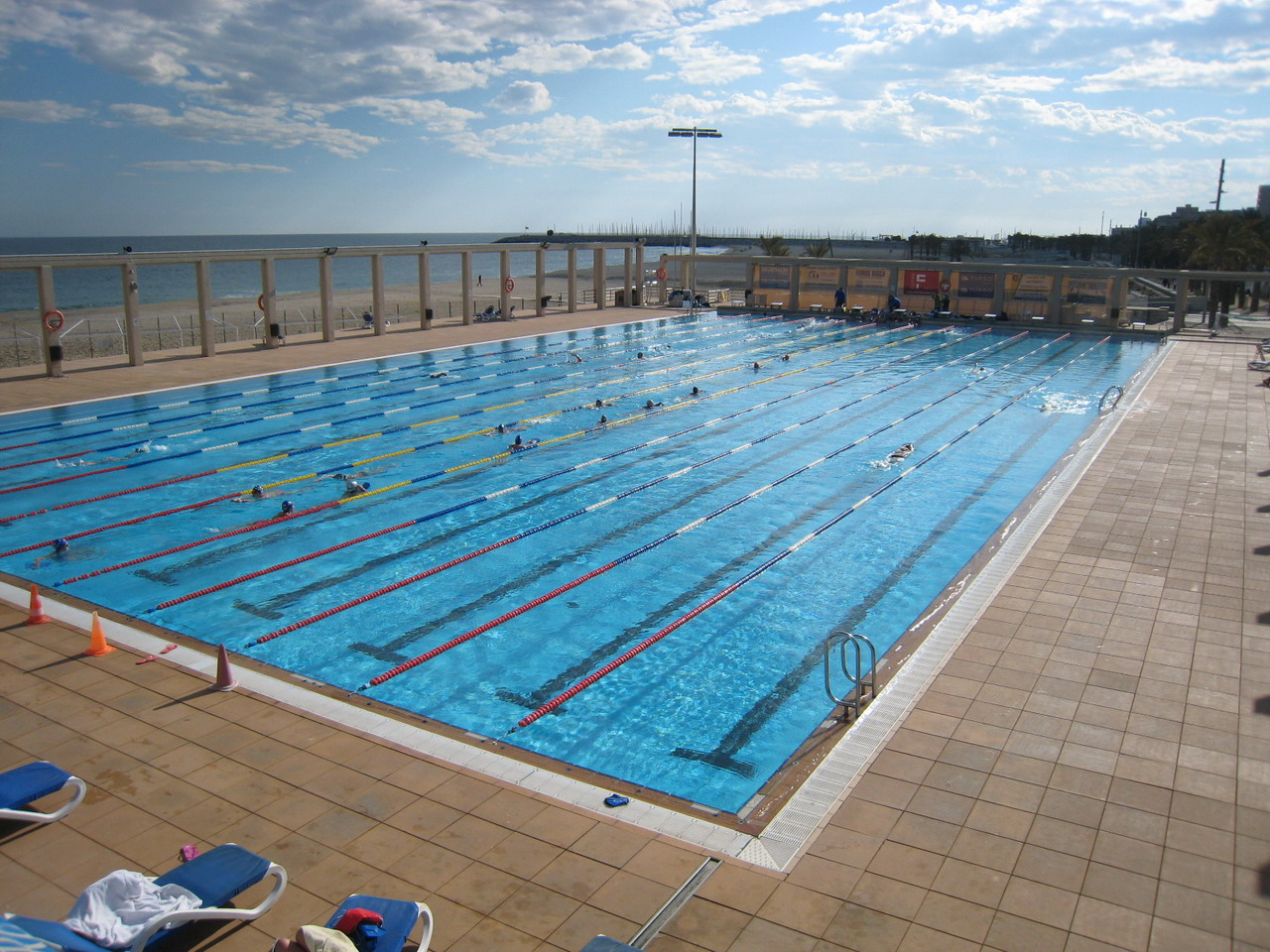 Swimming pool: Centre Natació Mataró (Spain)